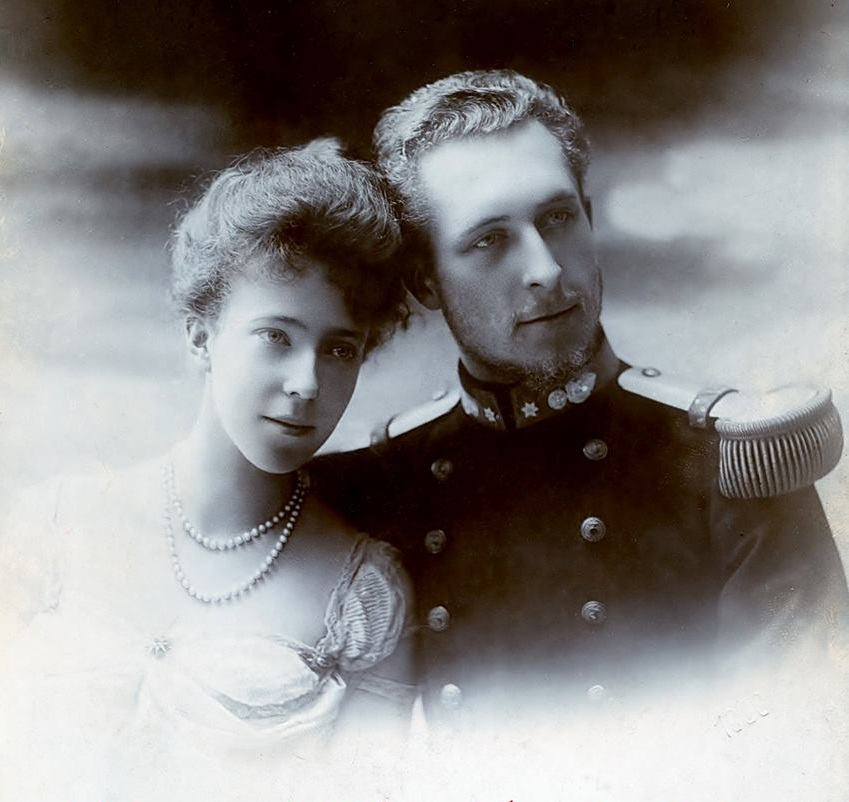 Albert I von Belgien und Königin Elisabeth, 1900